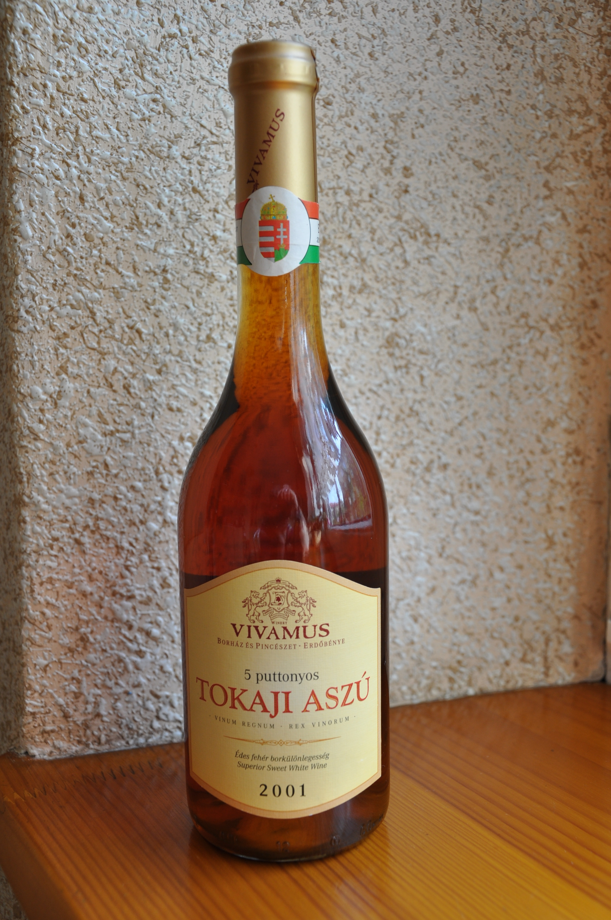 Tokaji Aszu 5 puttonyos. alk. 13%. 500ml.